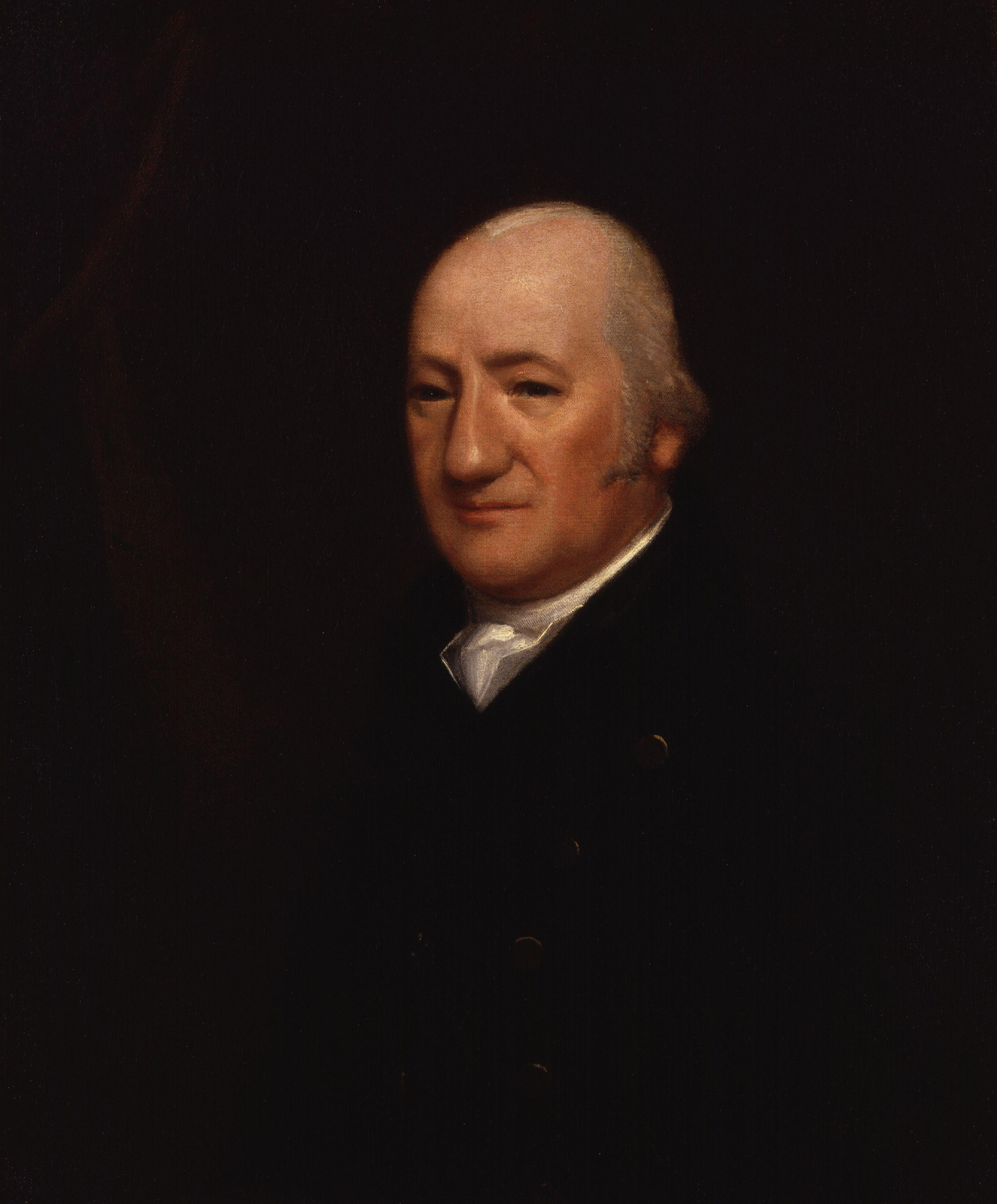 Henry James Pye, by Samuel James Arnold (floruit 1800-1808), given to the National Portrait Gallery, London in 1962. All images in this batch have a known author with unknown death date, but according to the NPG's website the author was floruit (known to be active) prior to 1859, and so is reasonably presumed dead by 1939.